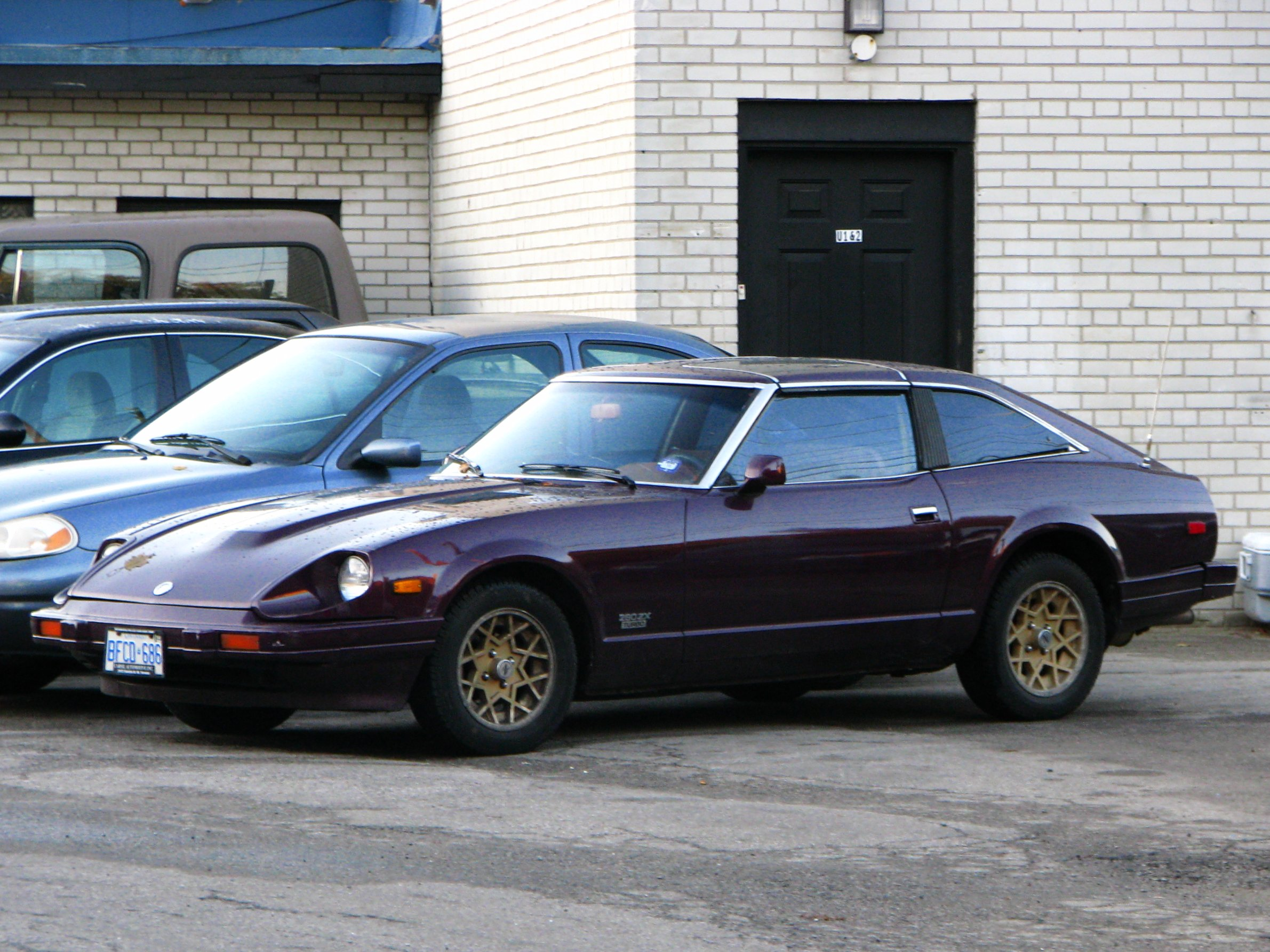 It;s hard to spot interesting cars this time of year!